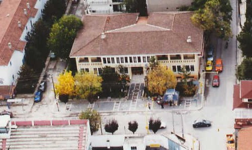 Town hall of Ptolemaida, Greece